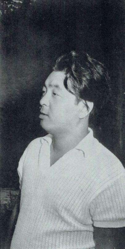 Ichirō Ikade (PN Keiichirō Ryū)